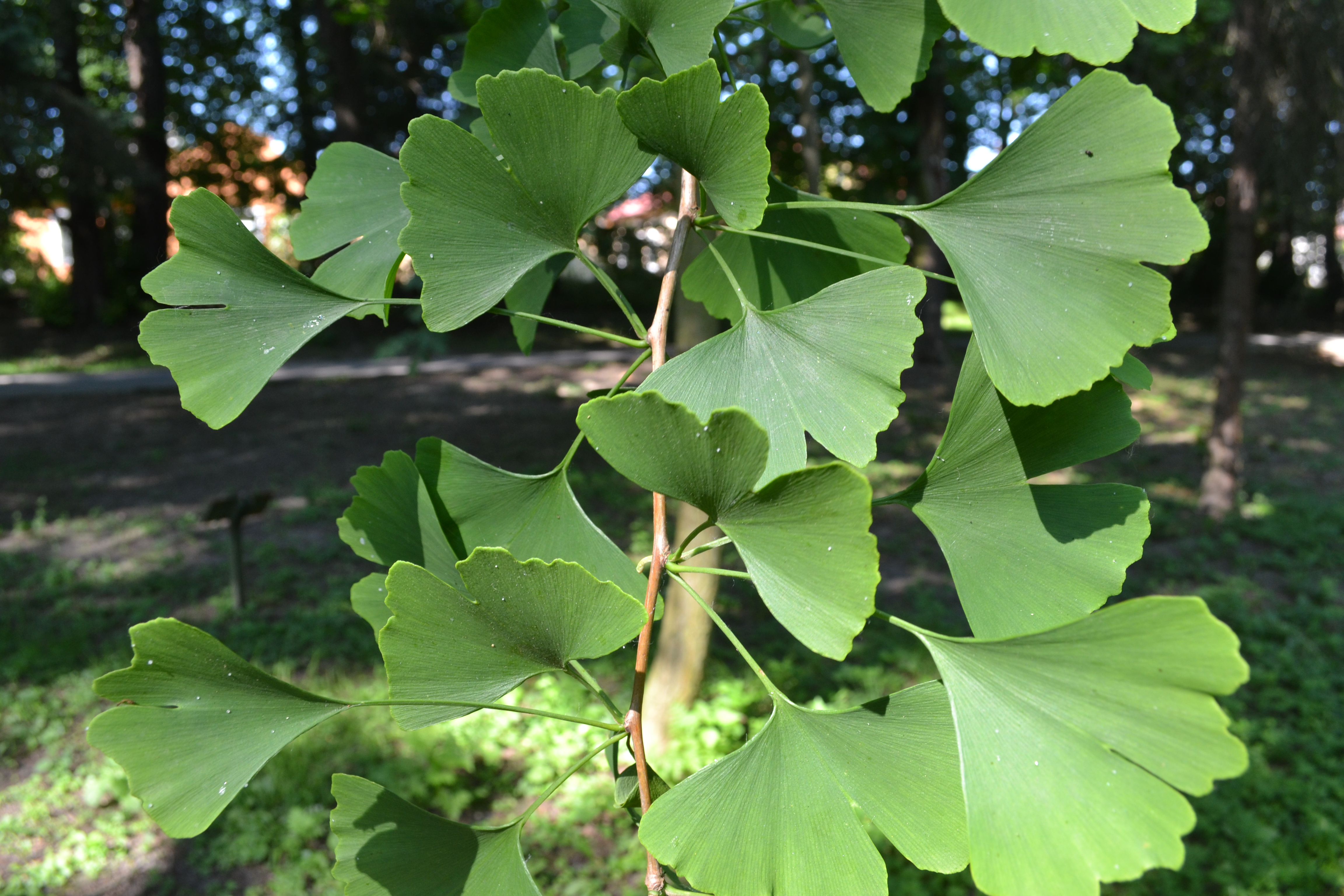 Ginkgo biloba - City Park in Lučenec